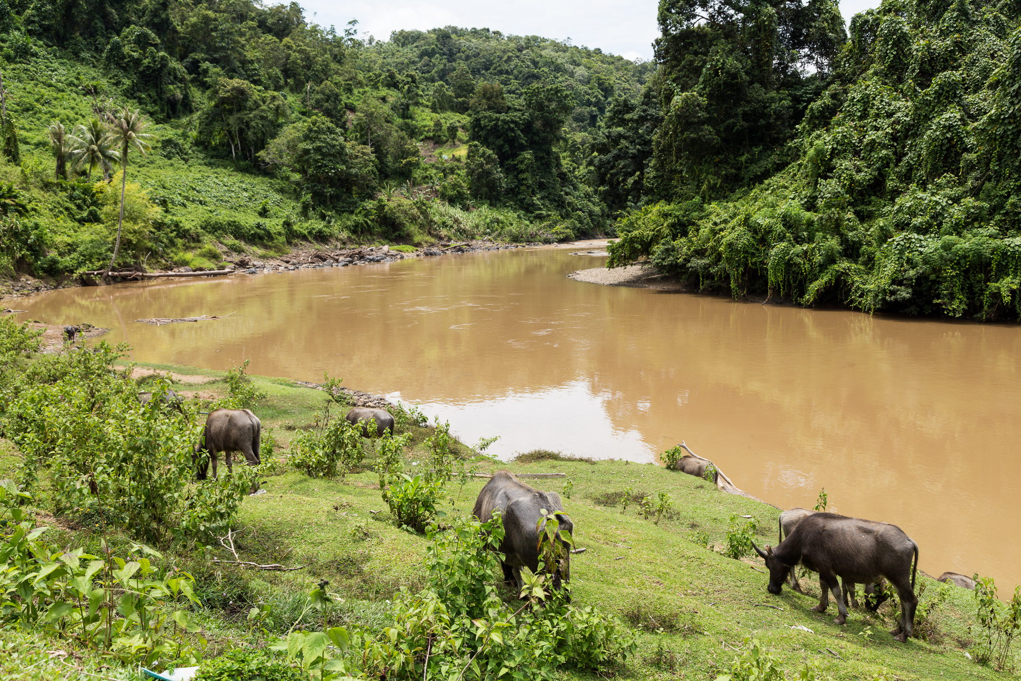 Pensiangan, Sabah, Malaysia: Sungai Tagol